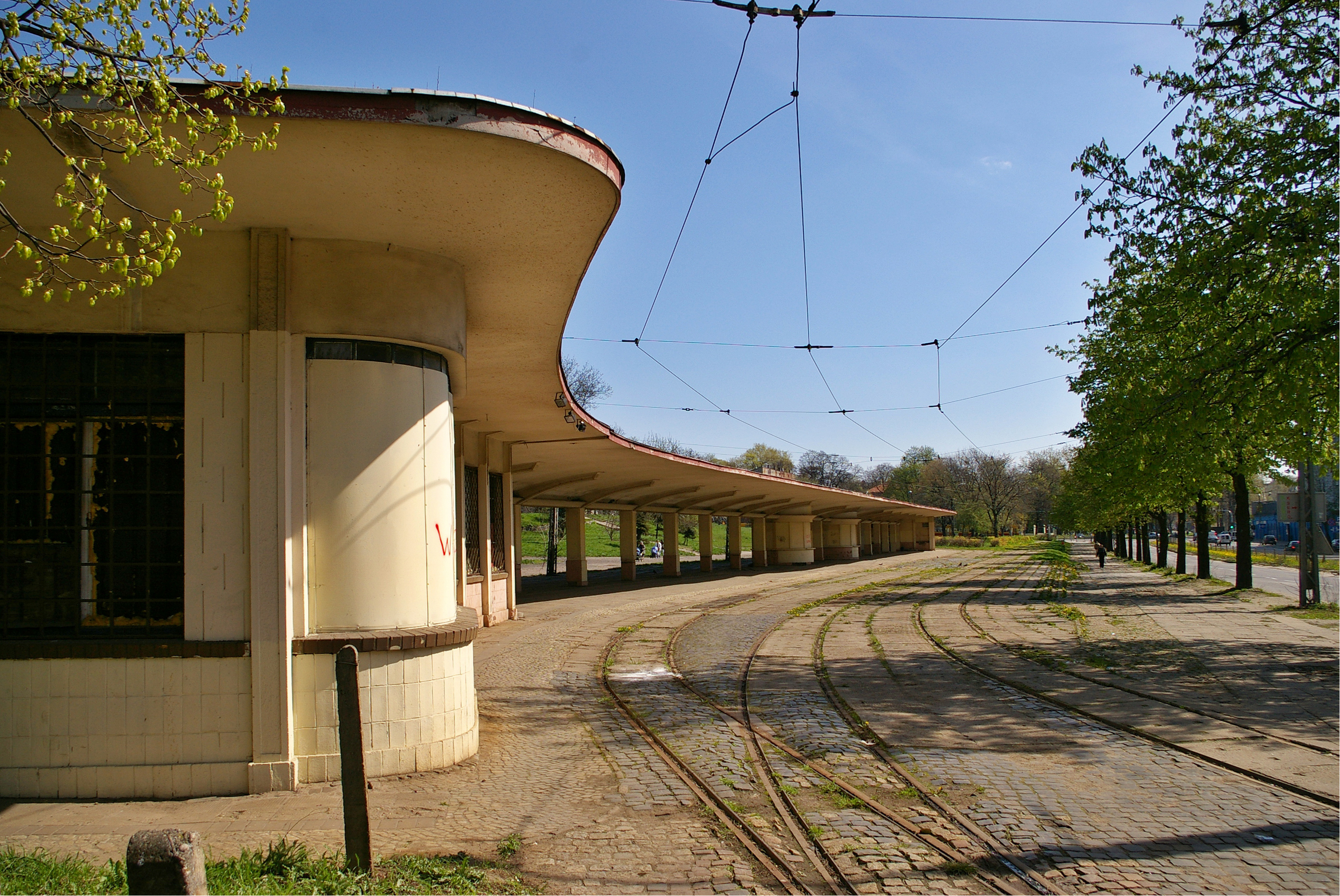 Old tram station, Północna st. in Łódź